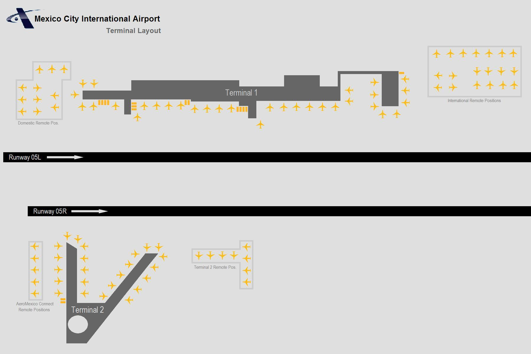 Mexico City's Airport Commercial Area Diagram After T2 was Built in 2007. Not scale.